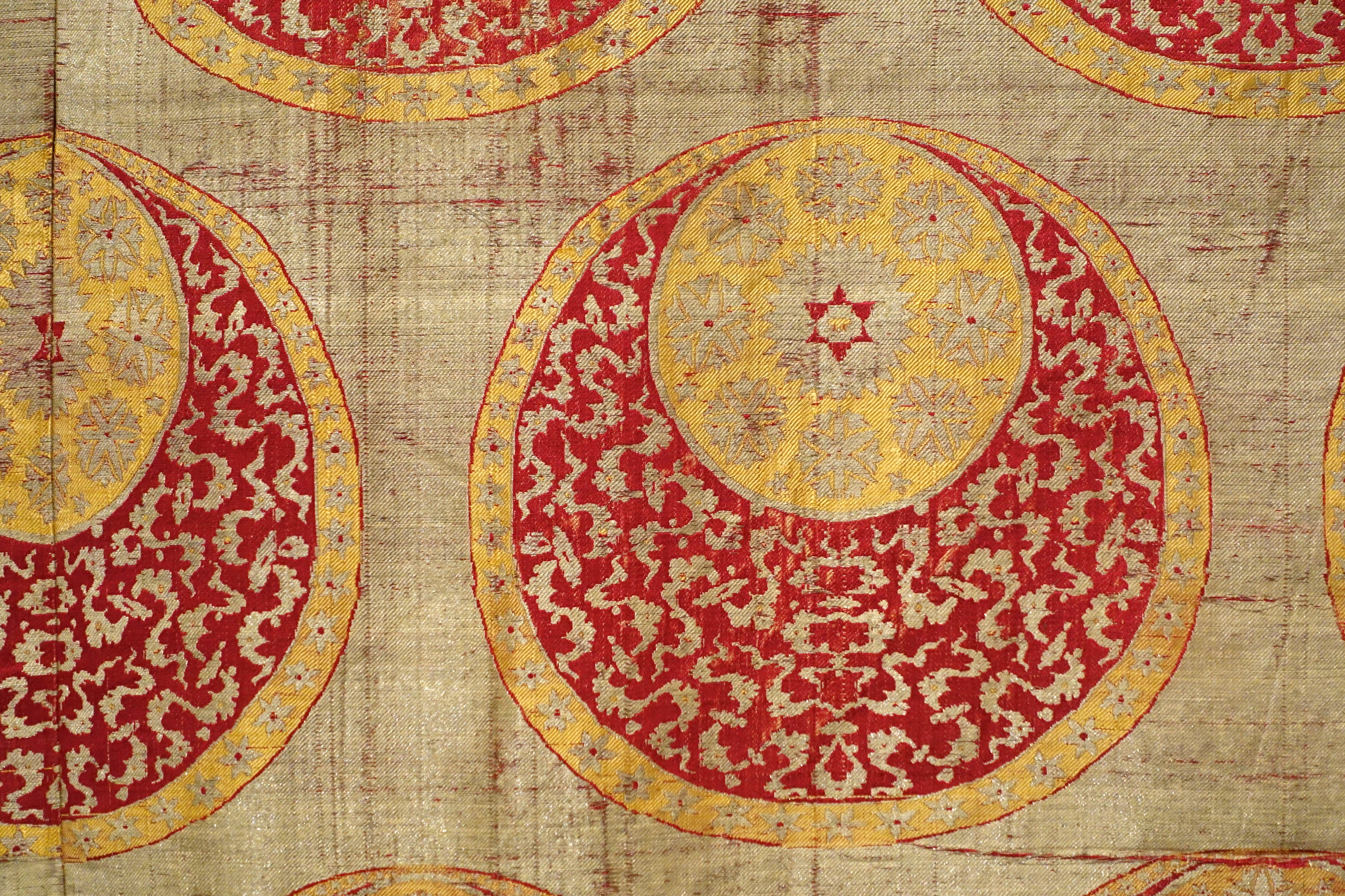 Exhibit in the Textile Museum, George Washington University, Washington, DC, USA. This work is old enough so that it is in the public domain.